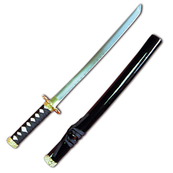 A wakizashi sword and his cover